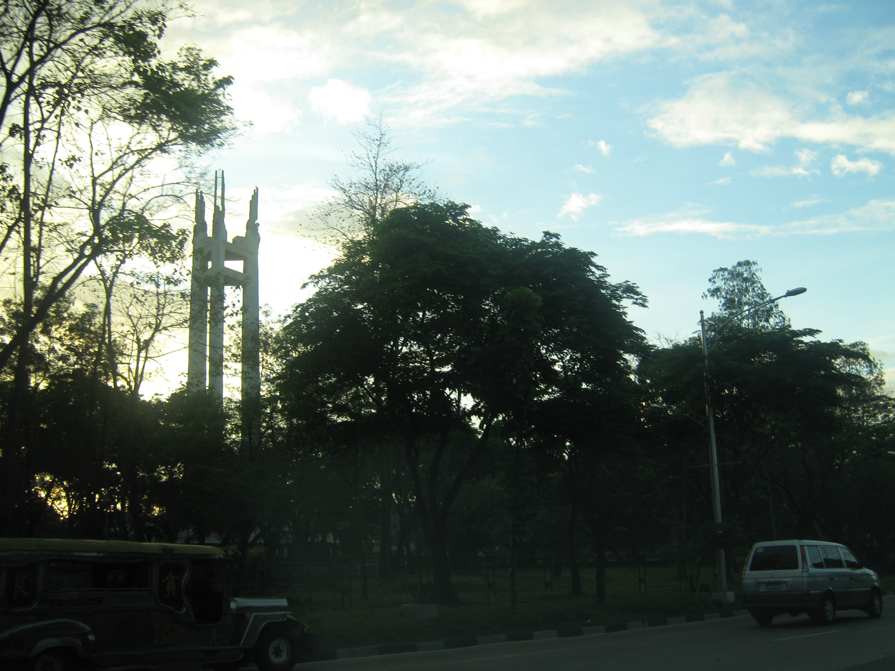 The Quezon Memorial Circle at daybreak.